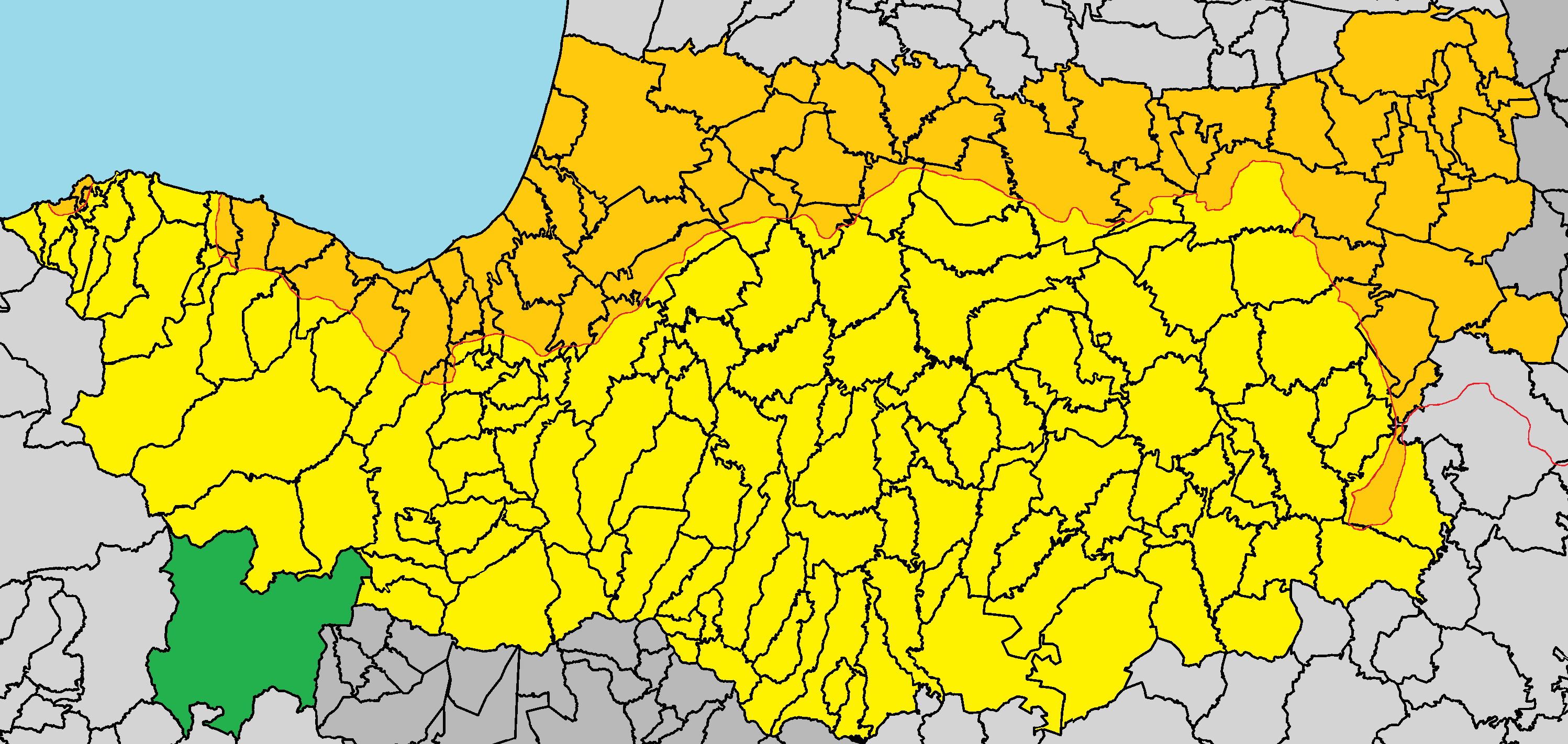 Mylikouri in Nicosia District.